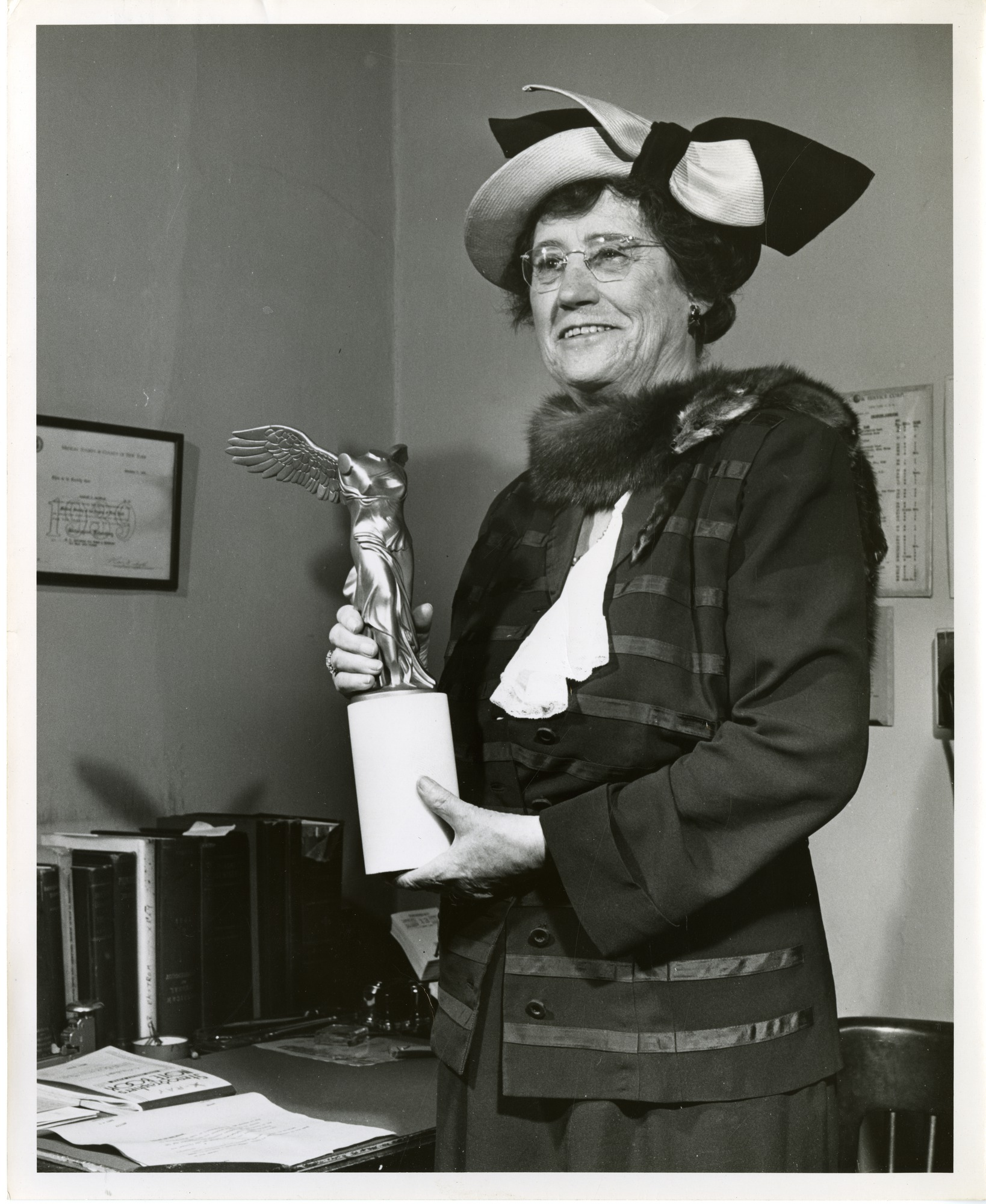 Elise Depew Strang L'Esperance (1878-1959), Cornell University, shown here in 1951 with her Lasker Clinical Medical Research Award, was a pioneer in cancer treatment for women and had received the award jointly with Catherine Macfarlane. She earned an M.D. in 1902 but by 1908 had shifted from medical practice to research, becoming professor of pathology at Cornell University Medical College in 1920. In 1937, she founded the first cancer clinic focused on treatment of women